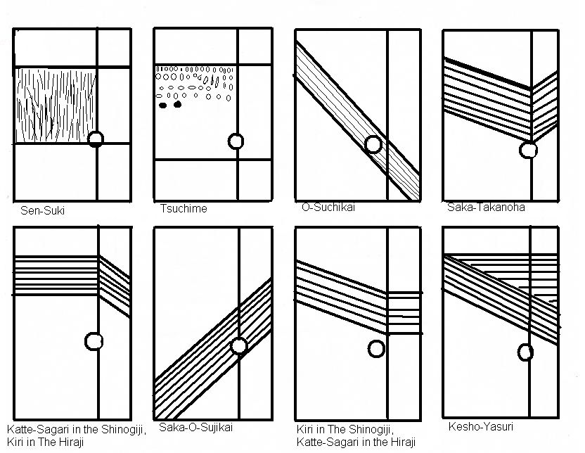 Styles of the japanese sword-Tang, File Marks 2